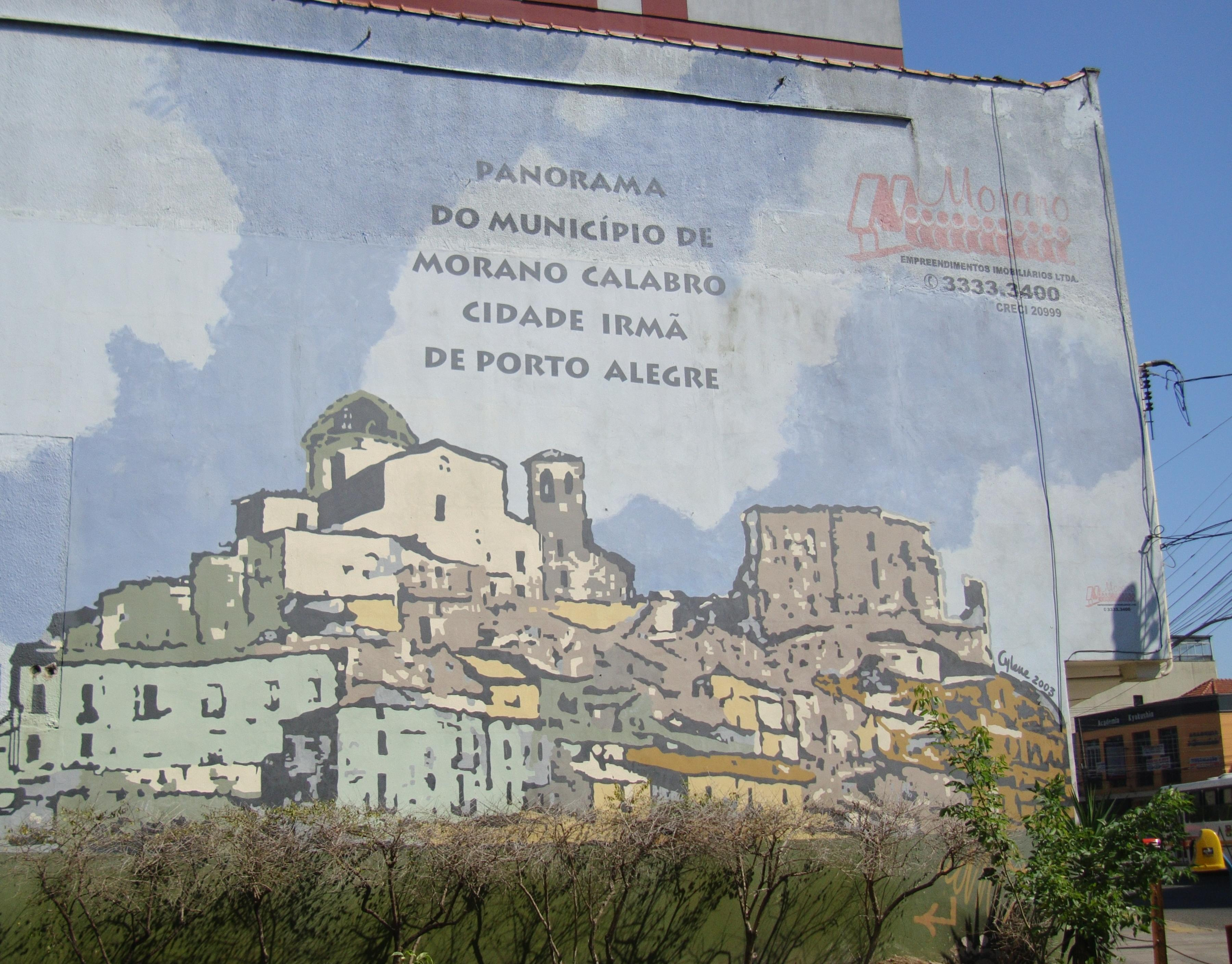 Morano Calabro mural in Porto Alegre, Rio Grande do Sul, Brazil